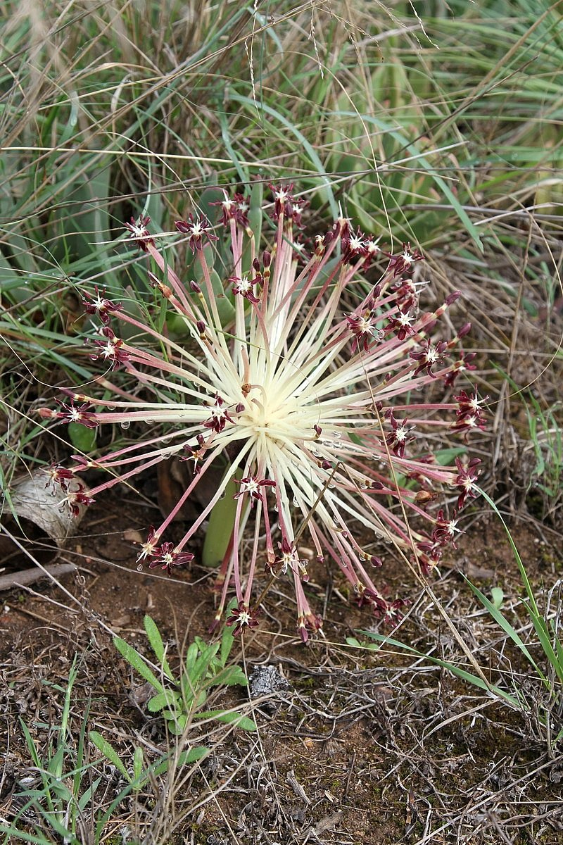 South Africa. Bontebok National Park. March 2010